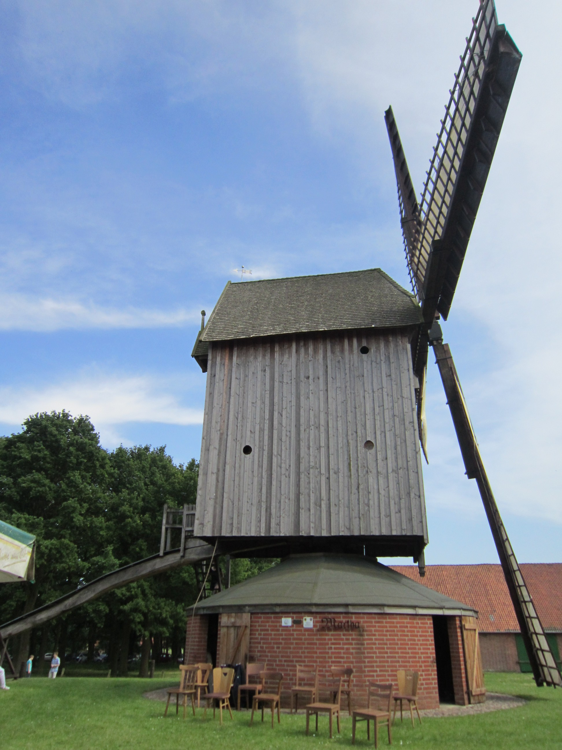 Windmill "Martha" in Wenden (Landkreis Nienburg/Weser, Lower Saxony)